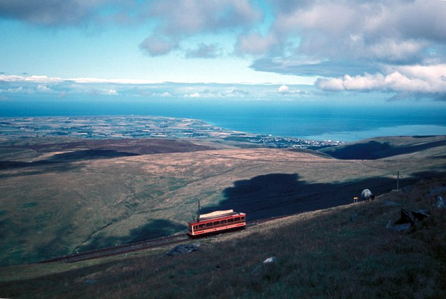 View from Snaefell Summit With car No 1 of the Snaefell Mountain Railway